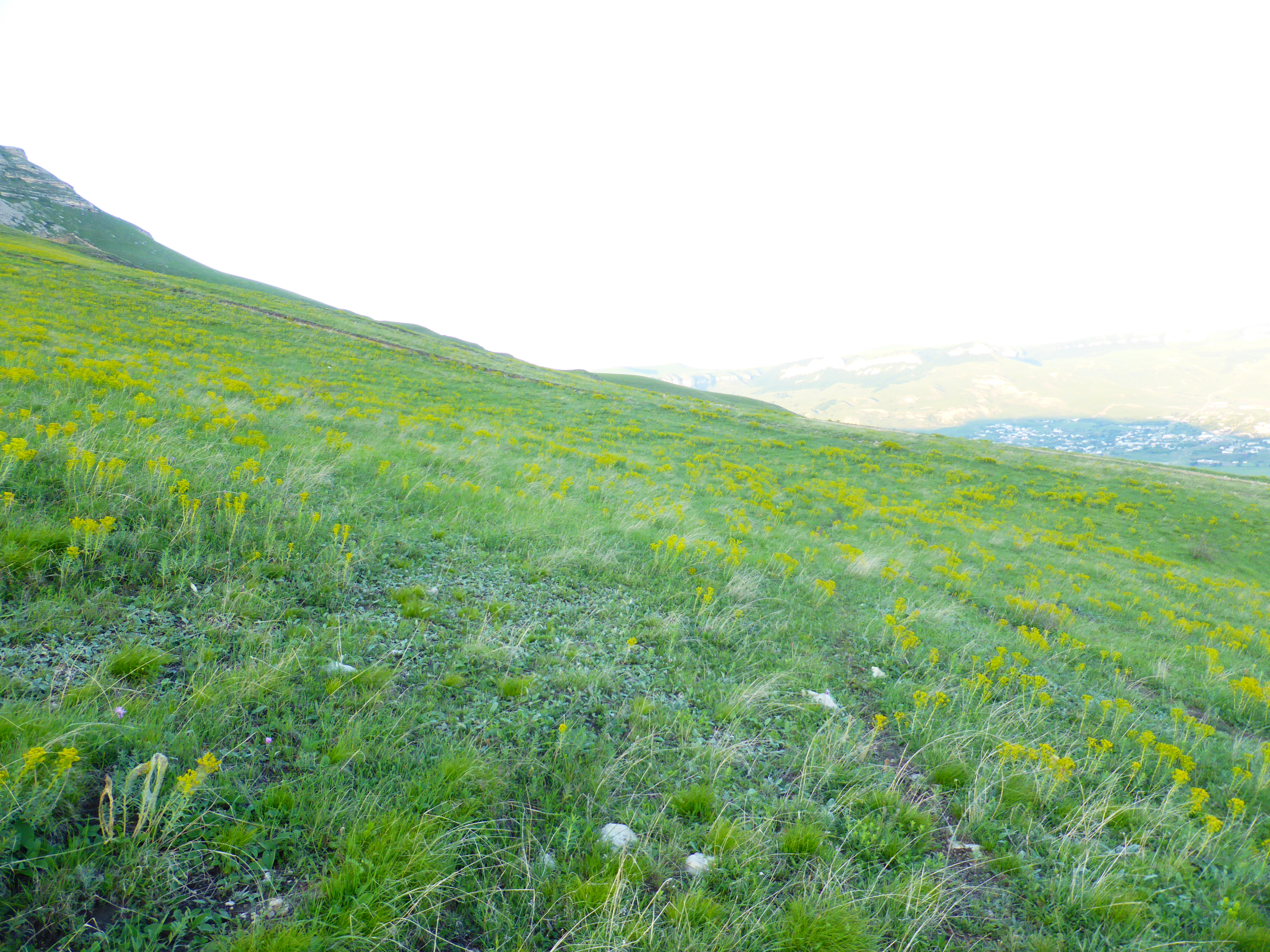 Meadow steppe on the Eastern slope of Jissa mountain